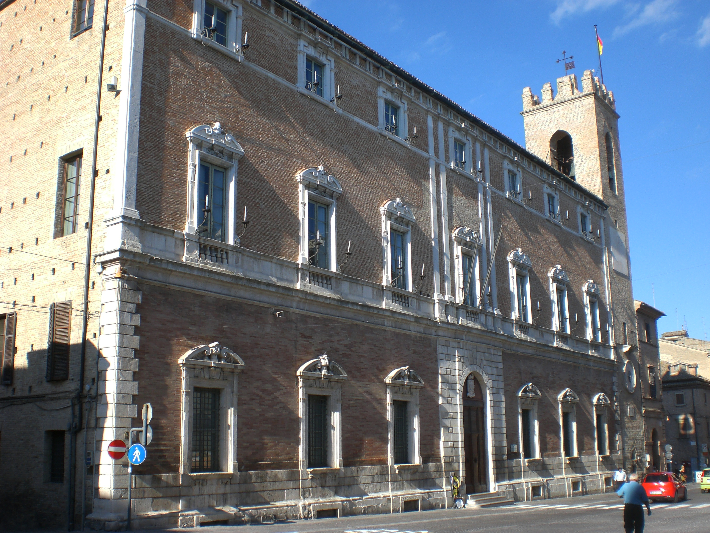 Osimo, Town Hall, XVI century